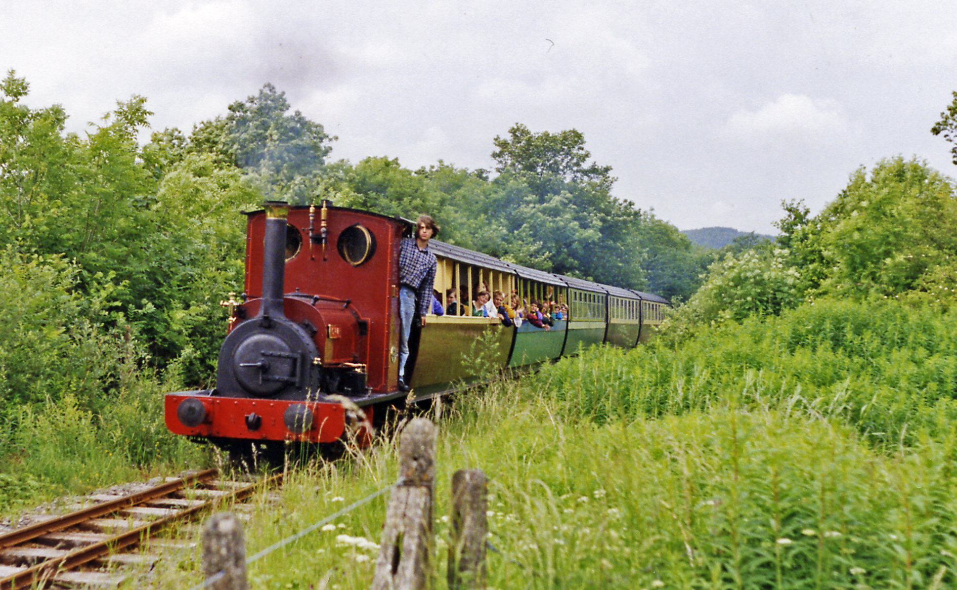 Bala Lake Railway train heading for Llanwchlyn. The train is heading for Llanwchllyn, with 0-4-0ST 'Holy War', which was built by Hunslet in 1902 for the Dinorwic Slate Quarry where it worked until 11/67. It was preserved at the Quainton Road Centre until acquired by the Bala Lake Railway in 1975.